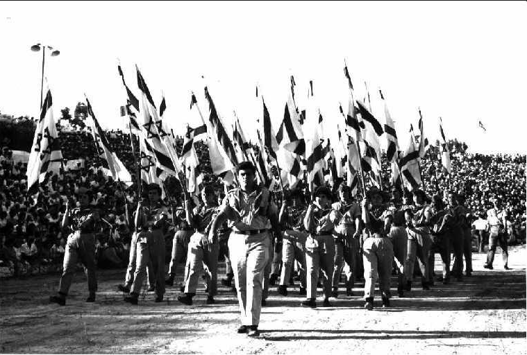 Opening ceremony during the 6th Maccabiah.